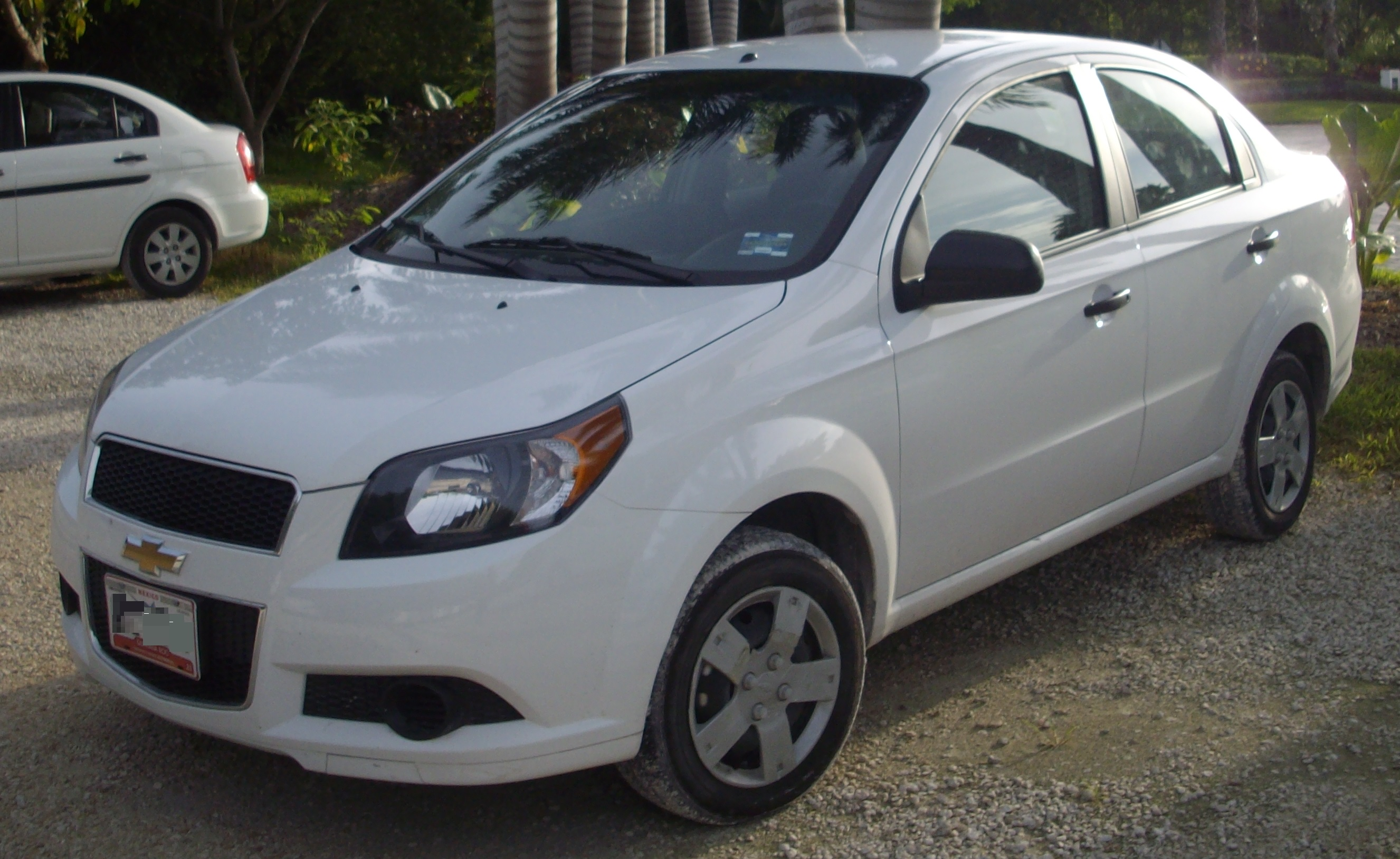 2012 Chevrolet Aveo photographed in Quintana Roo, Mexico.